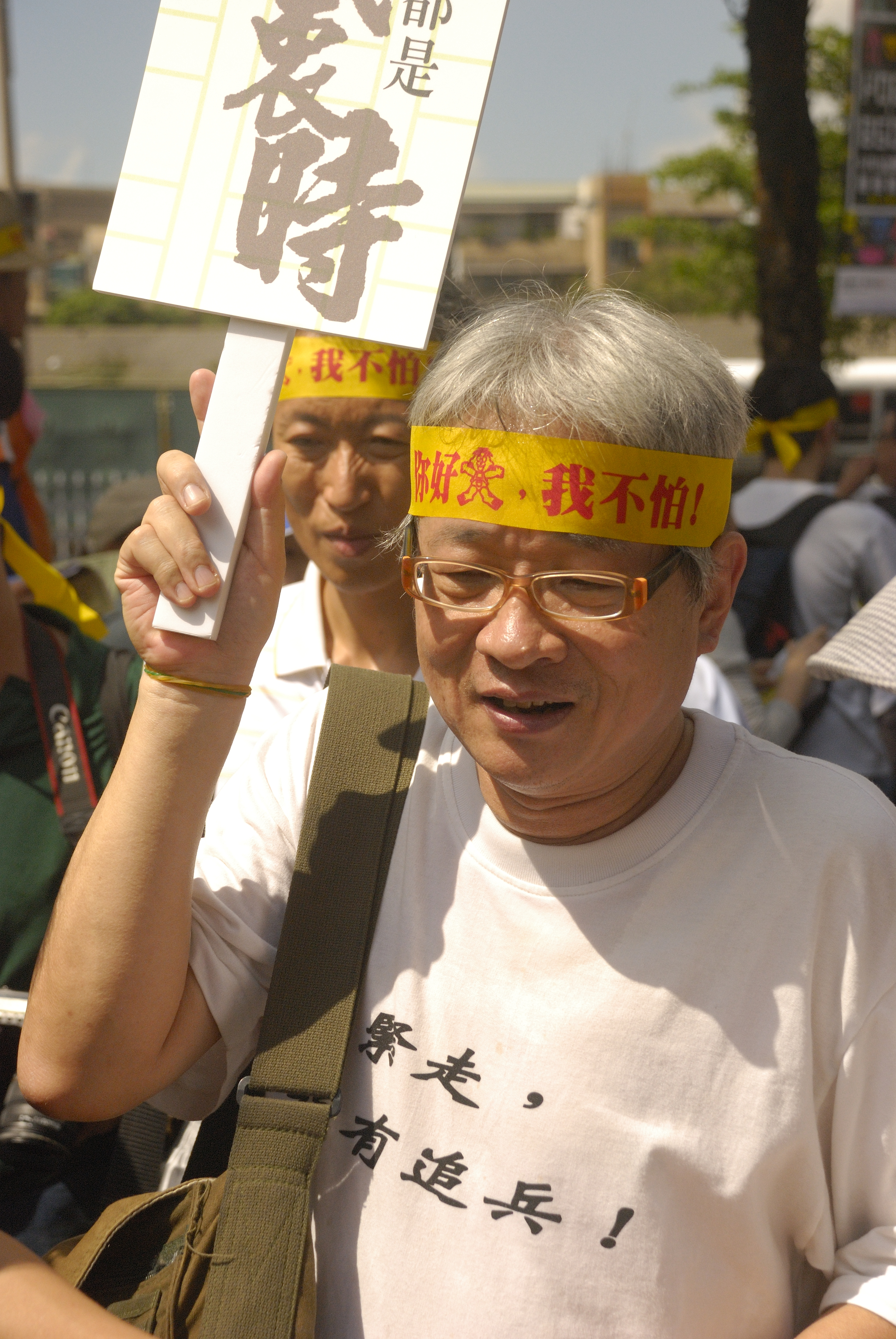 2012/09/01記者節之反旺中Anti-Media-Monopoly